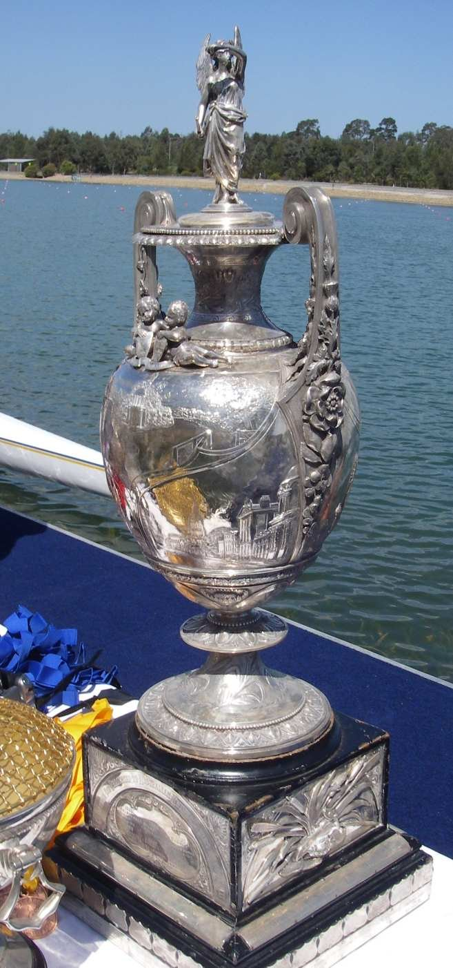 Photo by EDH